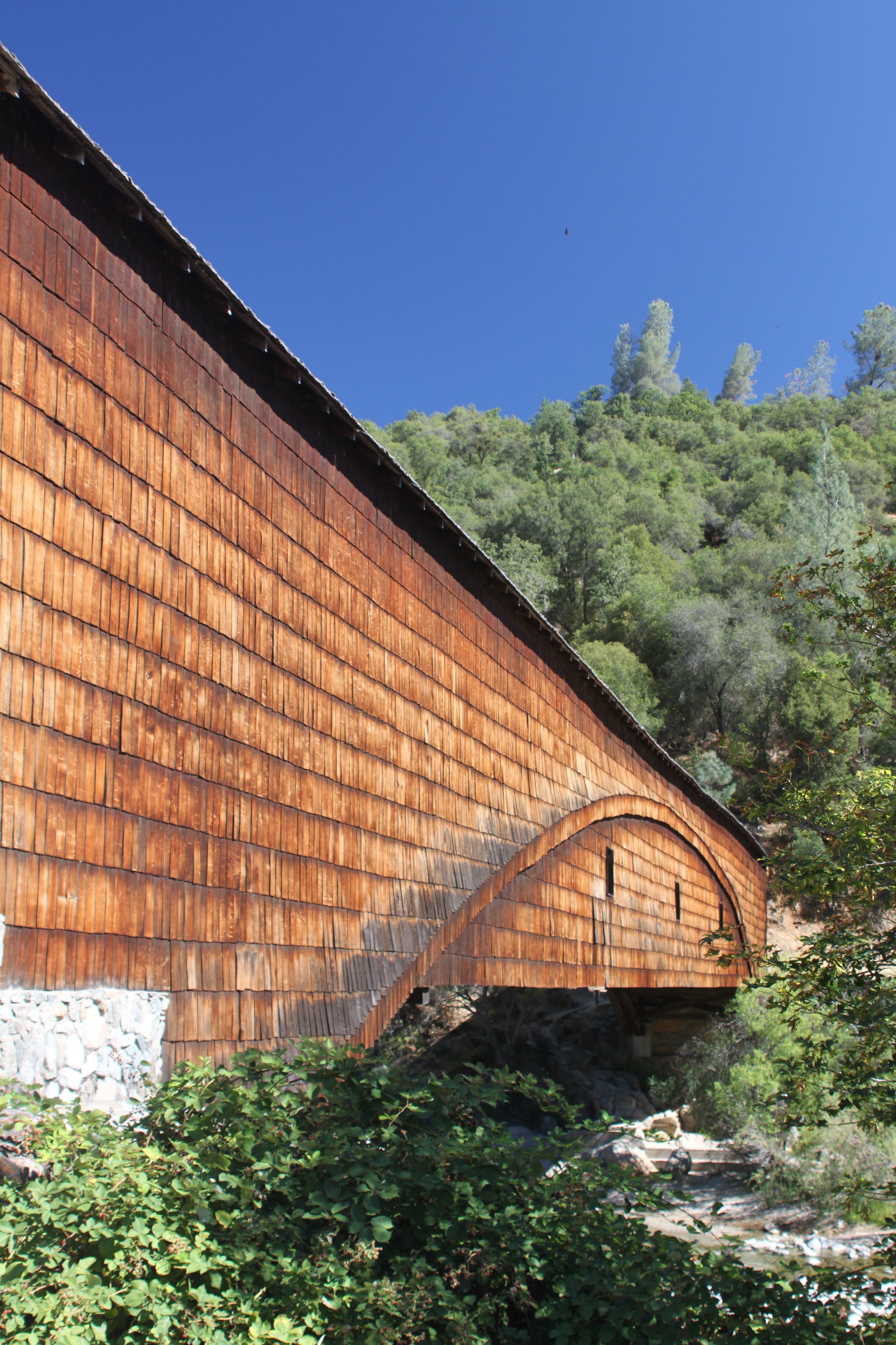 Historic Bridgeport Covered Bridge at South Yuba River State Park. In the western Sierra Nevada foothills.